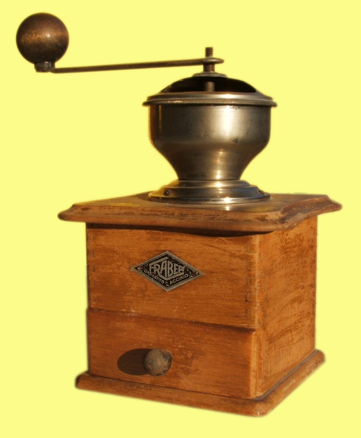 Old hand grinder for coffee